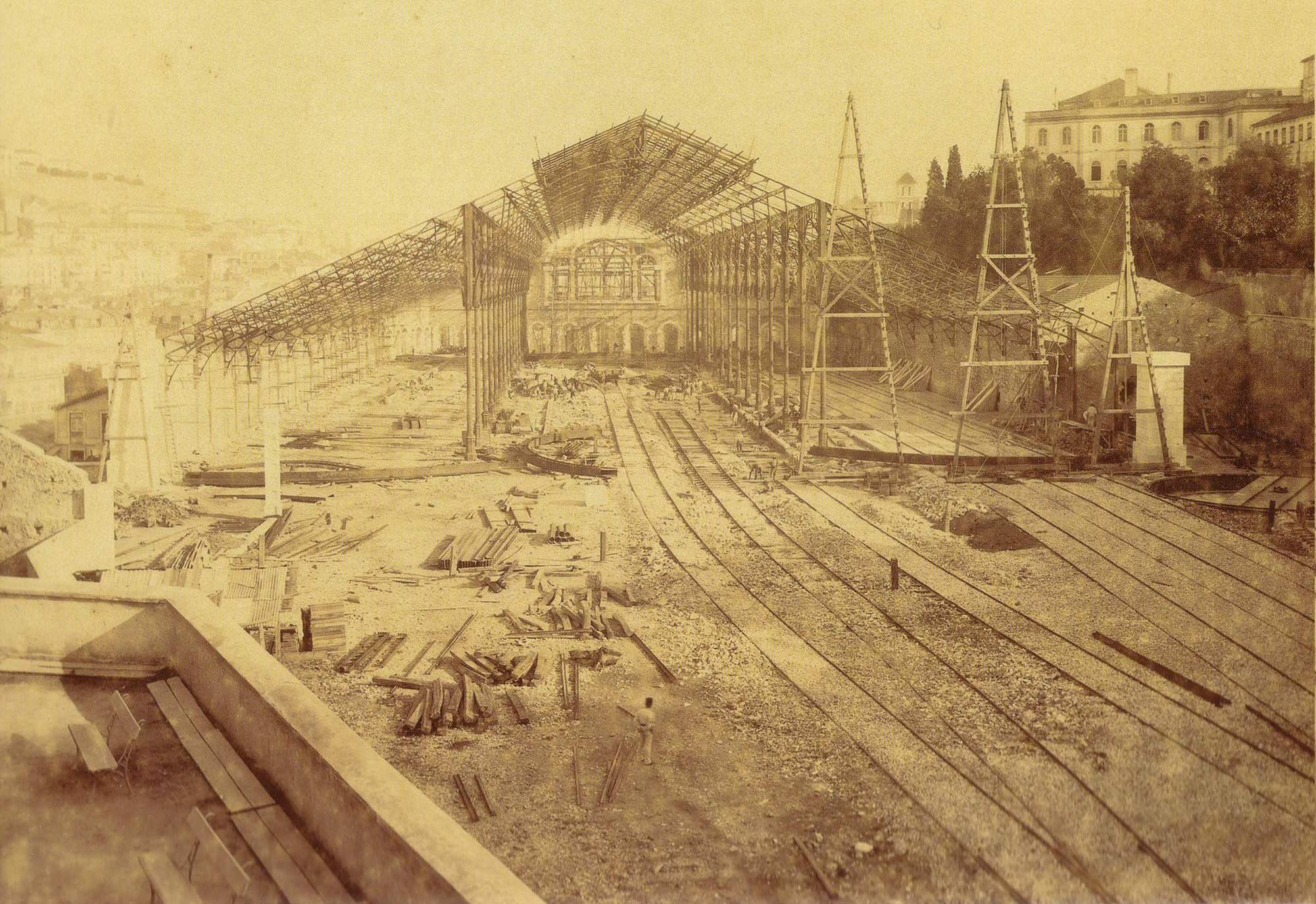 the construction of the Lisbon train station Rossio, Lisbon, Portugal